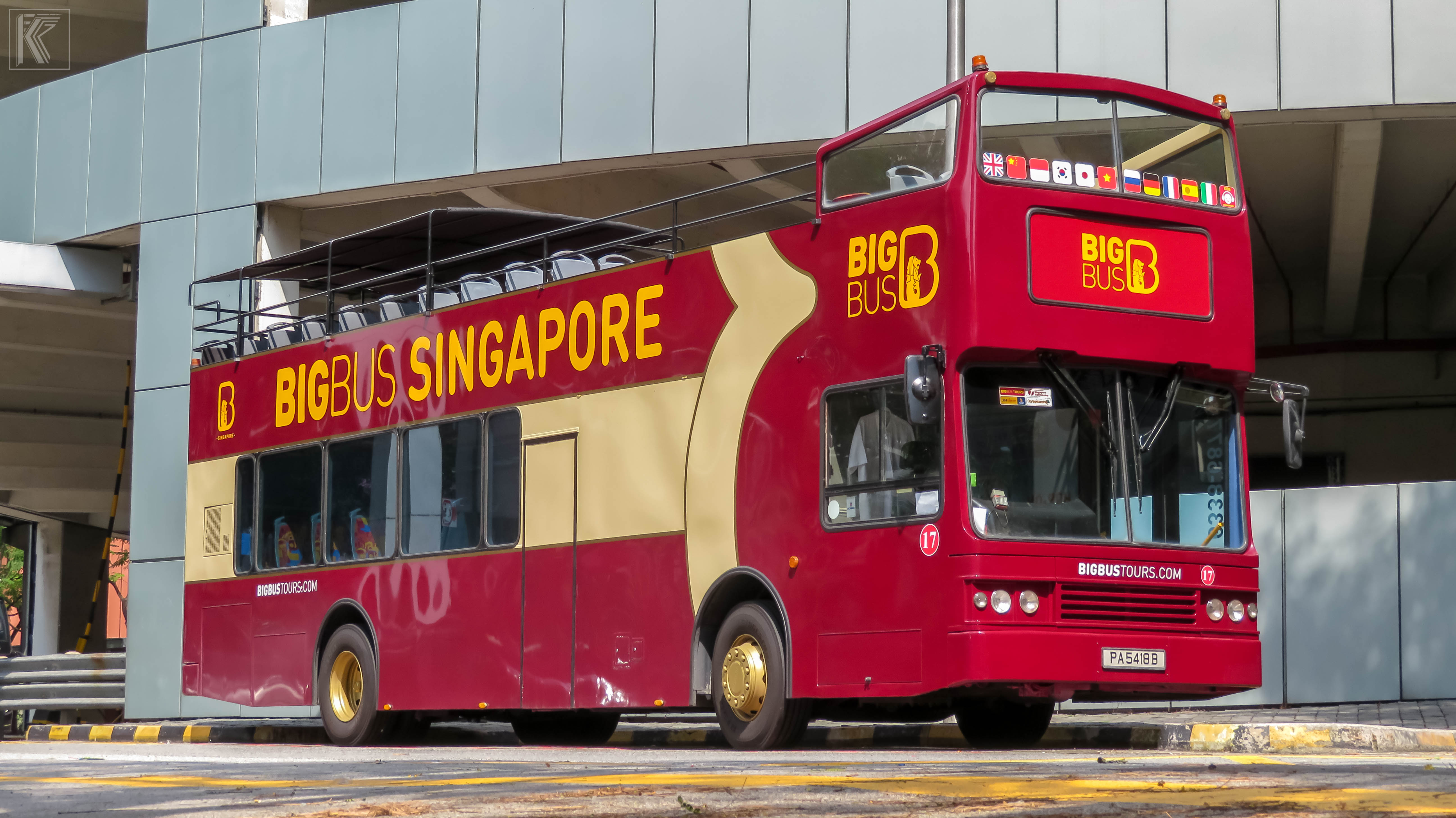 PA5418B Big Bus Tours has acquired Duck & HiPPO since 3rd September 2018, and has progressively sent their buses to don on Big Bus Tours' livery. The bodywork is assembled by Soon Chow in Singapore, and is a modified version of the more popular Walter Alexander Type R.